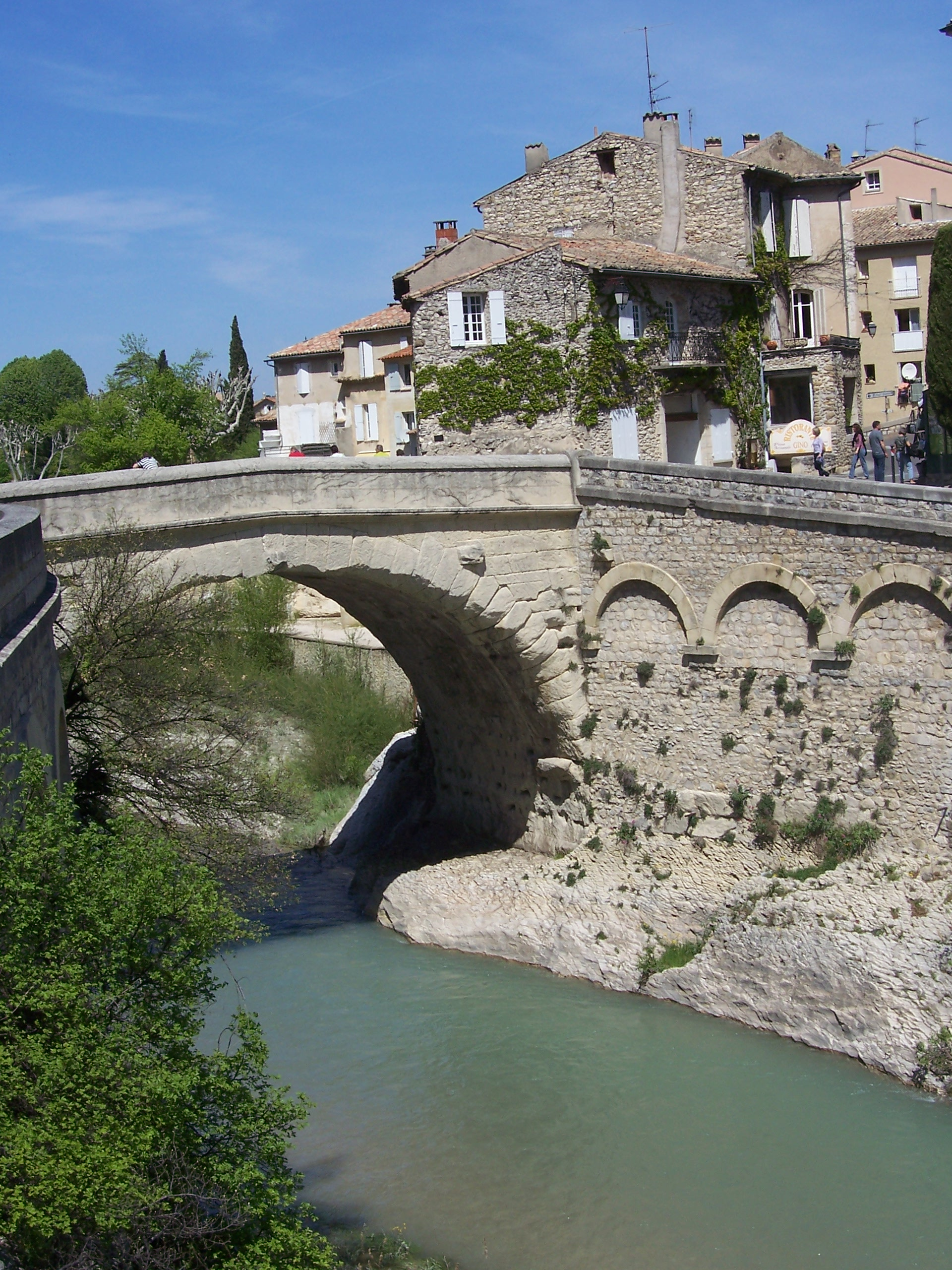 bridge of vaison-la-romaine